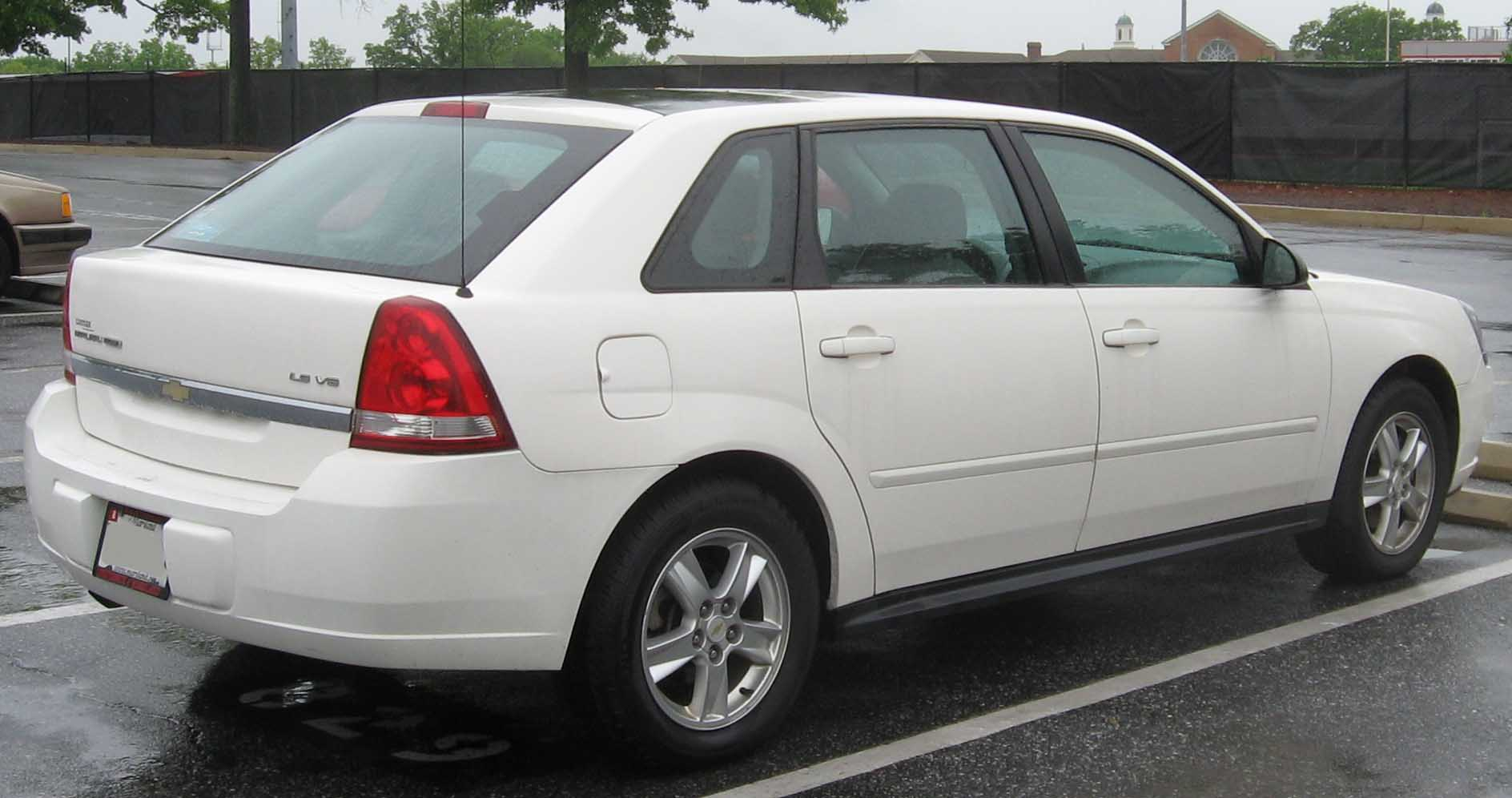 2004-2005 Chevrolet Malibu MAXX photographed in College Park, Maryland, USA.